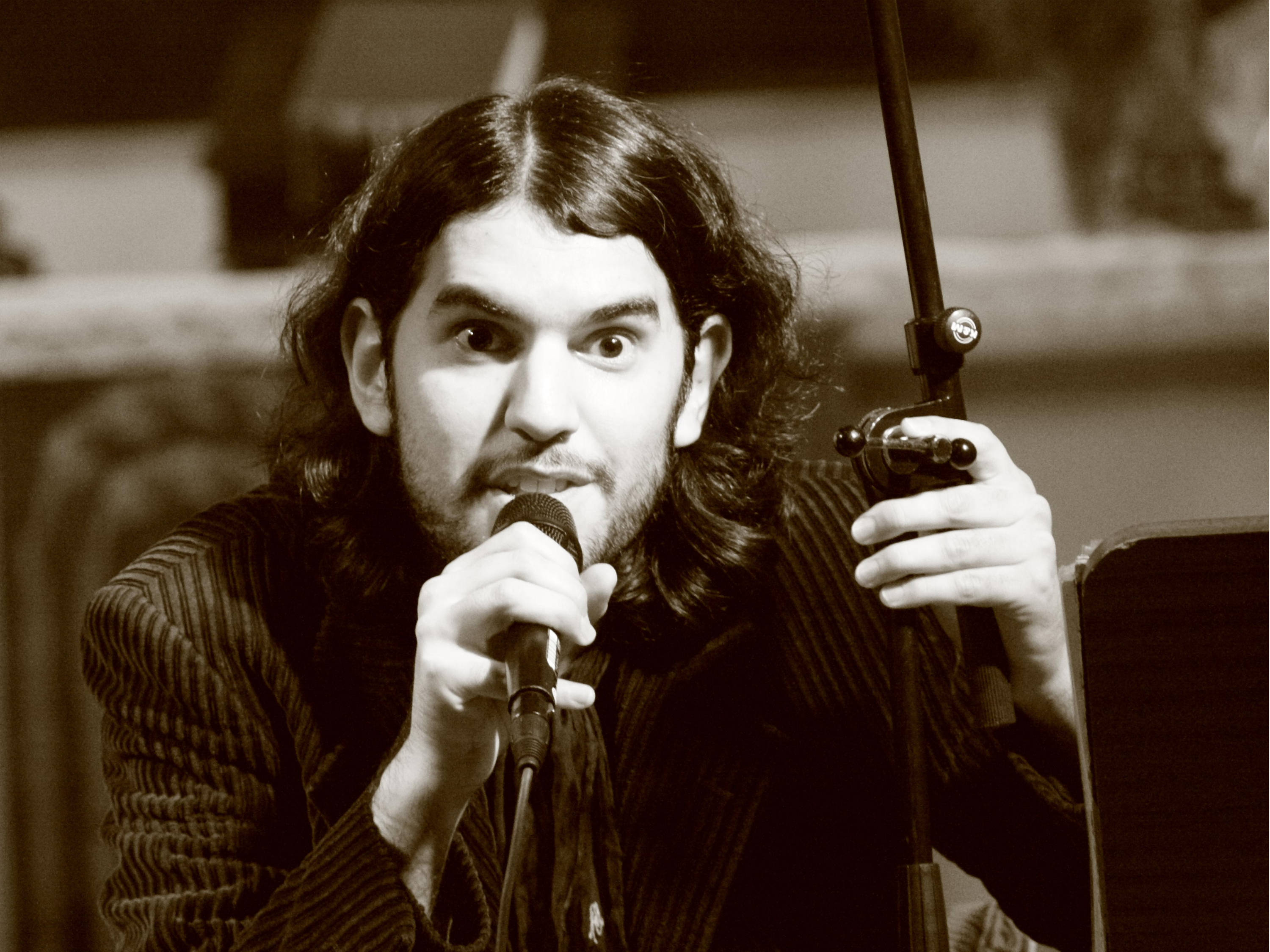 Tango-singer Cristóbal Repetto at the TFF-Festival, Rudolstadt